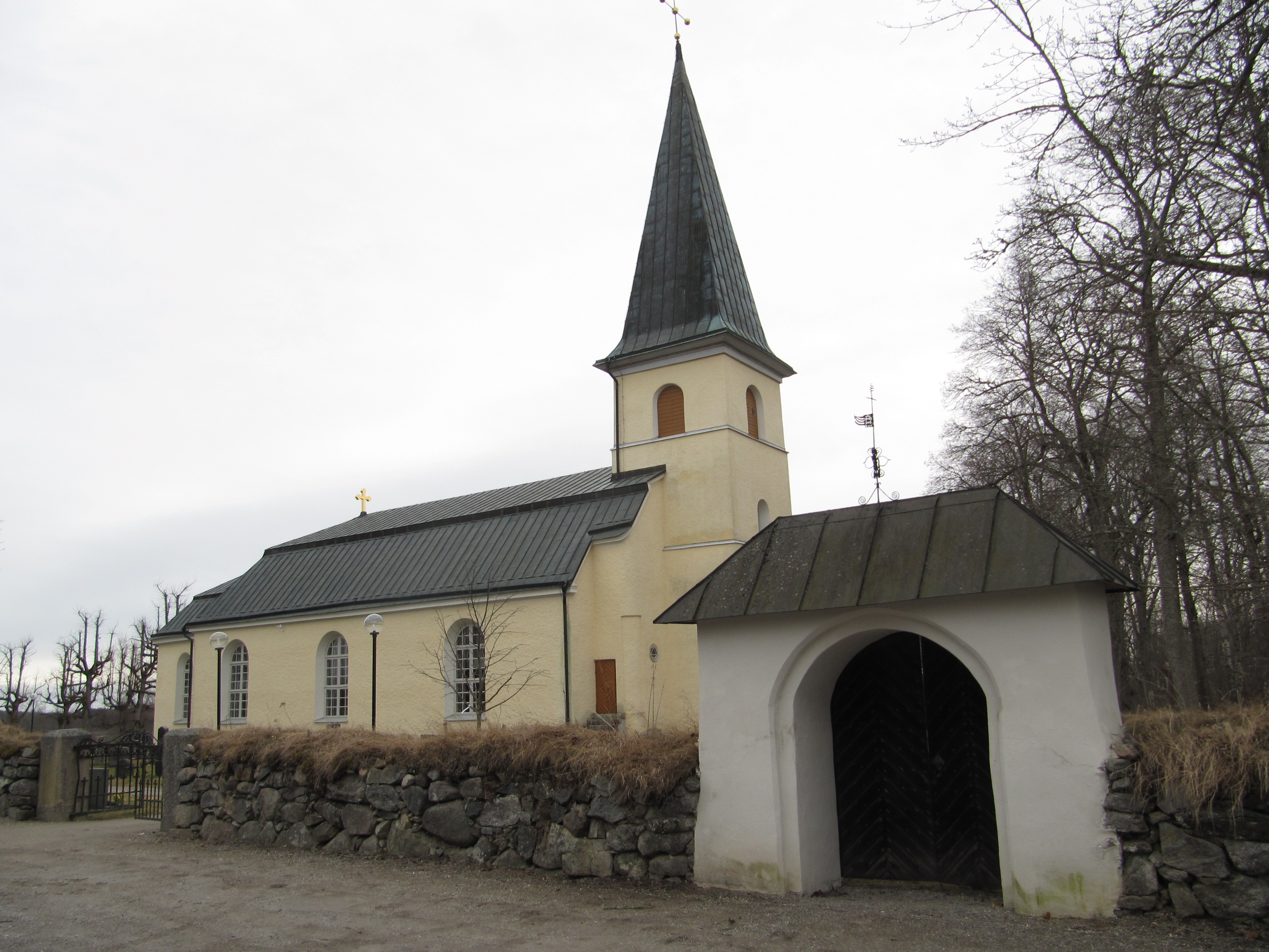 The church Axberg outside Örebro, Sweden